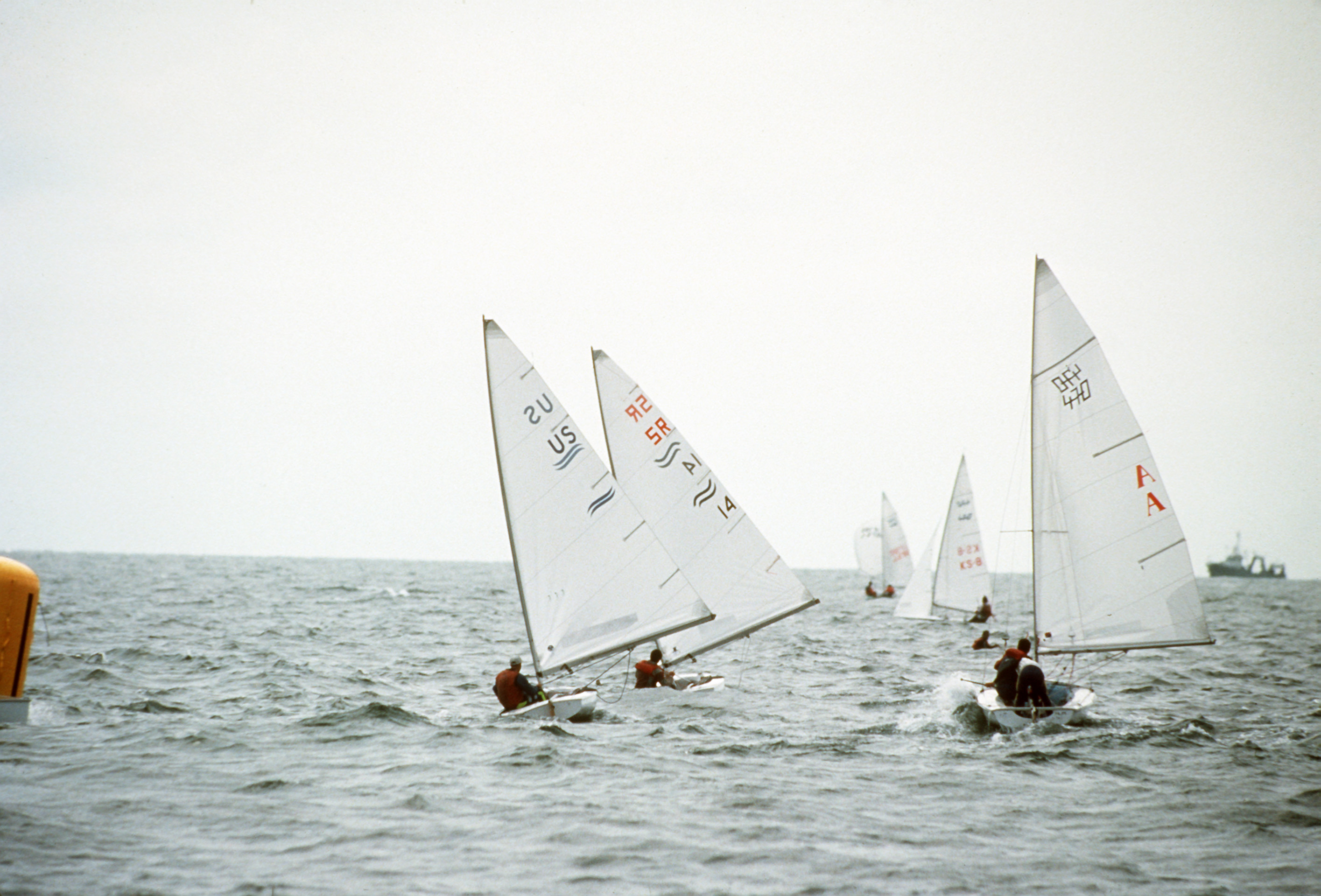 Brian Ledbetter of the US Olympic sailing team in the Finn class yachting competition at the Pusan Yachting Center.